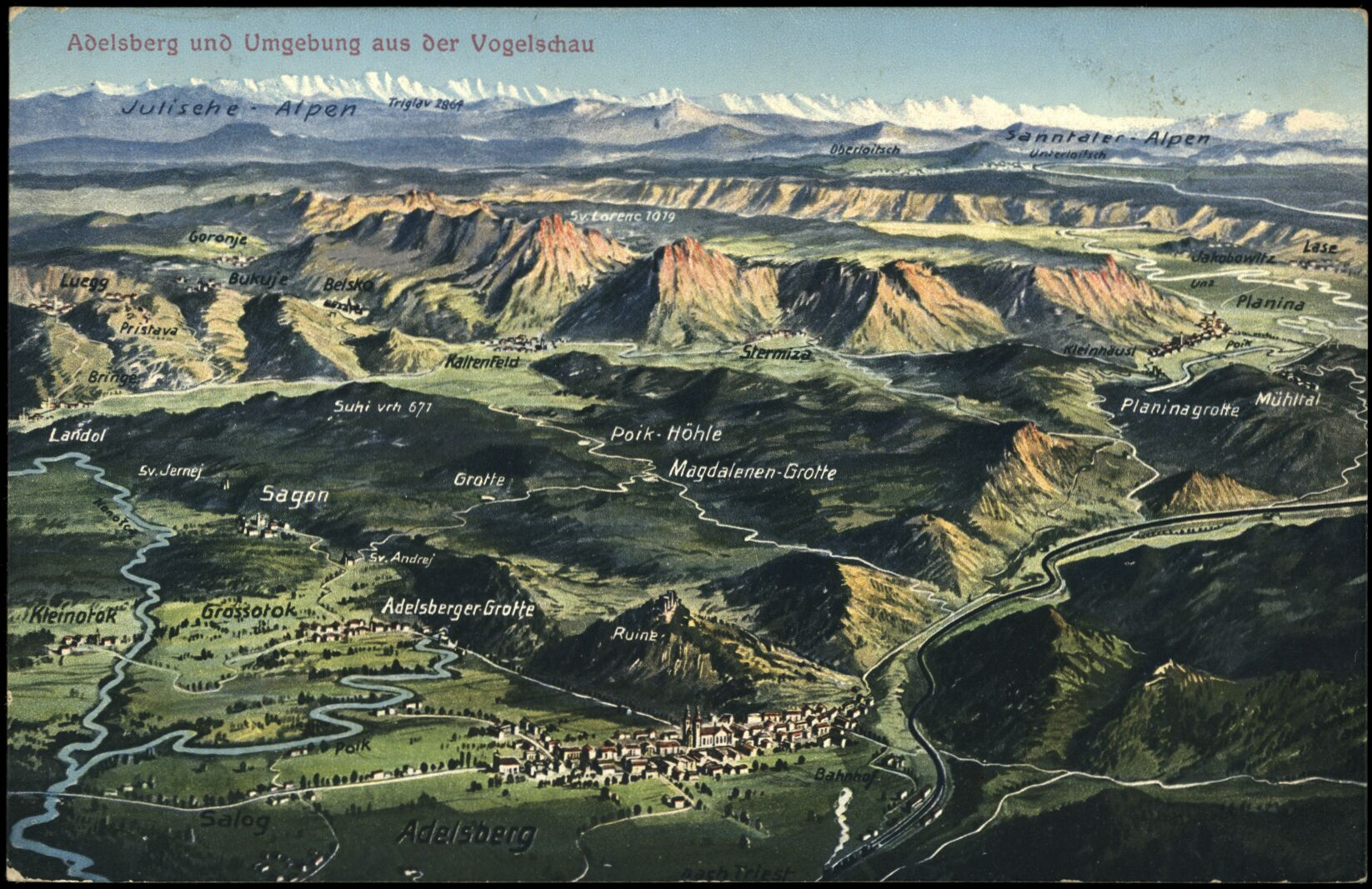 Postcard of Postojna.